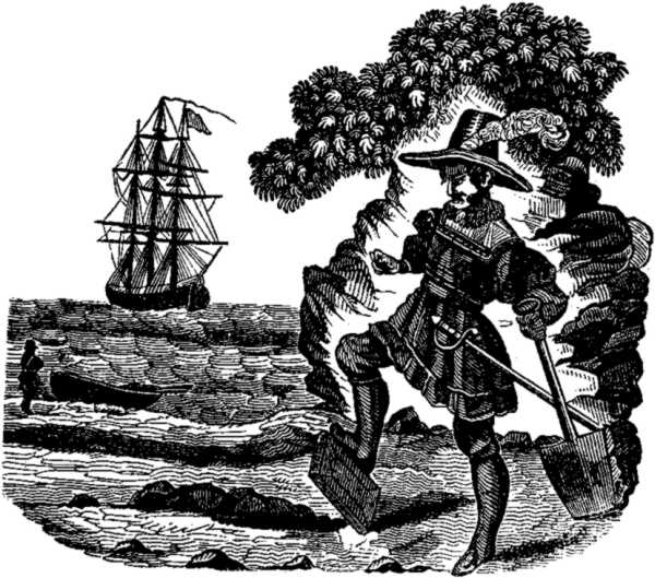 Captain Kidd burying his family Bible as depicted in The Pirates Own Book by Charles Ellms.